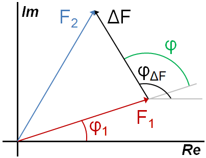 Principle of the isomorphous replacement method for structure solution. F1 and F2 represent the total structure factor from two isomorphous crystals for a given reflection, ΔF is their difference. The angles φ1 and φΔF are the phases of F1 and ΔF, they are related via φ.